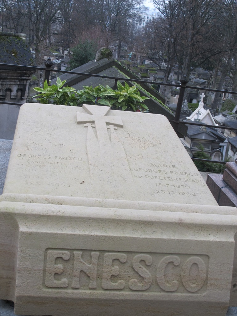 Pere Lachaise, George Enescu Burial